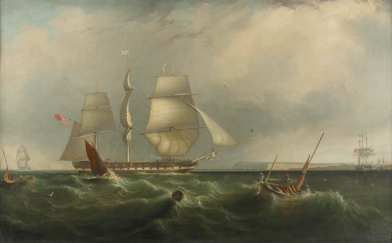 The Indiaman 'Seringapatam' arriving home Oil painting entitled 'The Indiaman "Seringapatam" arriving home'. An alternative title for this painting is 'Portrait of the "Seringapatam", picking up a pilot'. It has been suggested, though not conclusively, that the location may be in the mouth of the Thames off the North Foreland. The vessel, built by Richard Green of Blackwall in 1837, initiated the last generation of East Indiamen. The principal improvement was the suppression of the coach and the lengthening of the quarter-deck to compensate for loss of passenger accommodation. The resulting design assumed the layout of a frigate and the 'Seringapatam' and those Indiamen that followed became known as 'Blackwall frigates'. The vessel was named after the siege and battle of 1798 by which the East India Company gained control over the south-west Indian state of Mysore, an area ruled by Tipu Sultan, who was killed in the action. The NMM also holds a full-hull ship model of the 'Seringapatam' (SLR0763) and at least one print (PAH9329). The painting shows her hove-to flying Green's pre-1843 house flag at the main and with the signal for a pilot (a Union flag with a white border) apparently being hauled down from the foremmast. He may have just gone aboad from the red-sailed cutter beating out of the picture plane. The painting is signed and dated 1839. For the artist, Butland, see also BHC3532. The Indiaman 'Seringapatam' arriving home